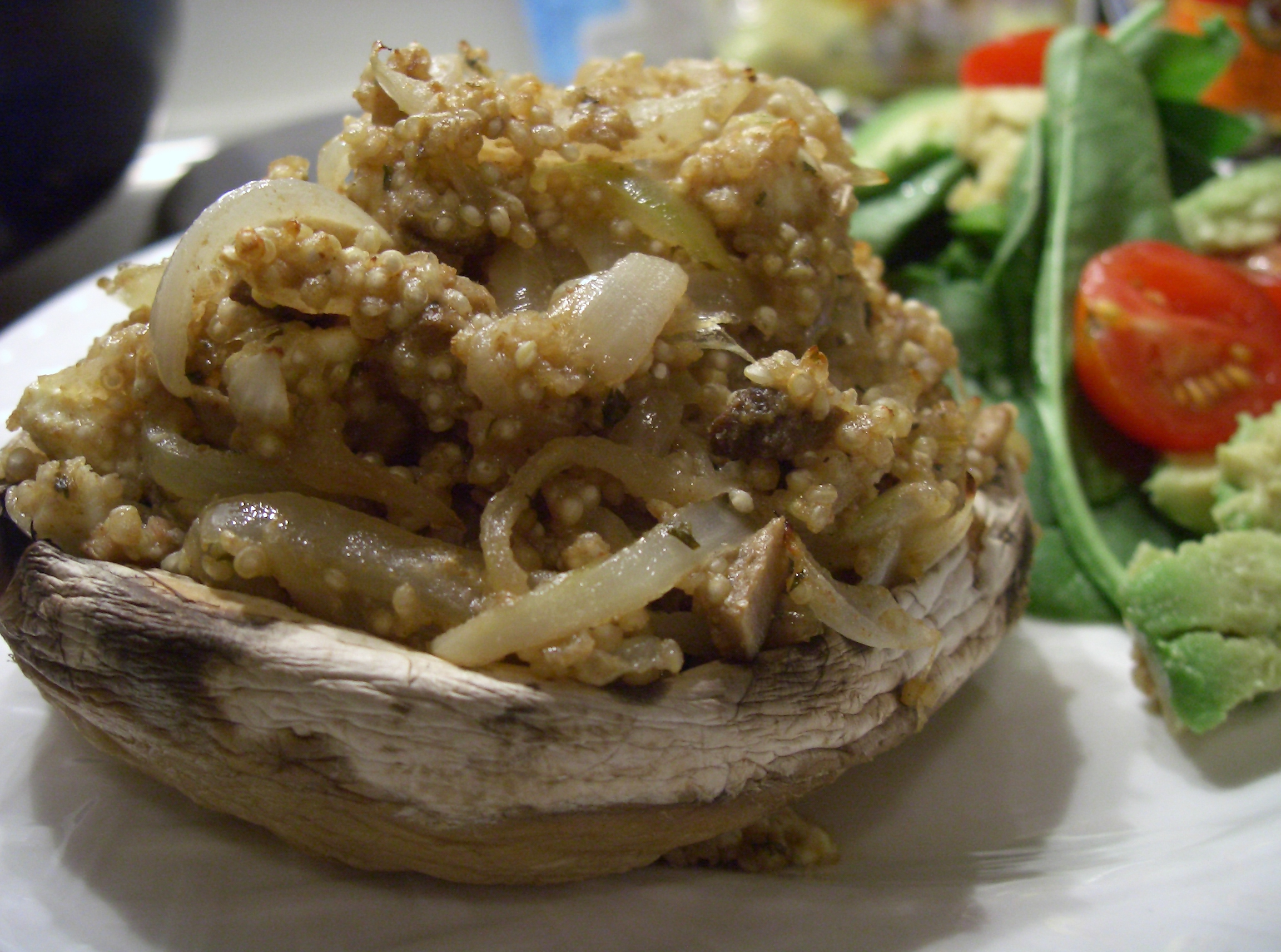 A tasty dish known as stuffed mushrooms with spiced quinoa (and onions, obviously), and salad on the side. The large flat mushrooms are Agaricus bisporus.